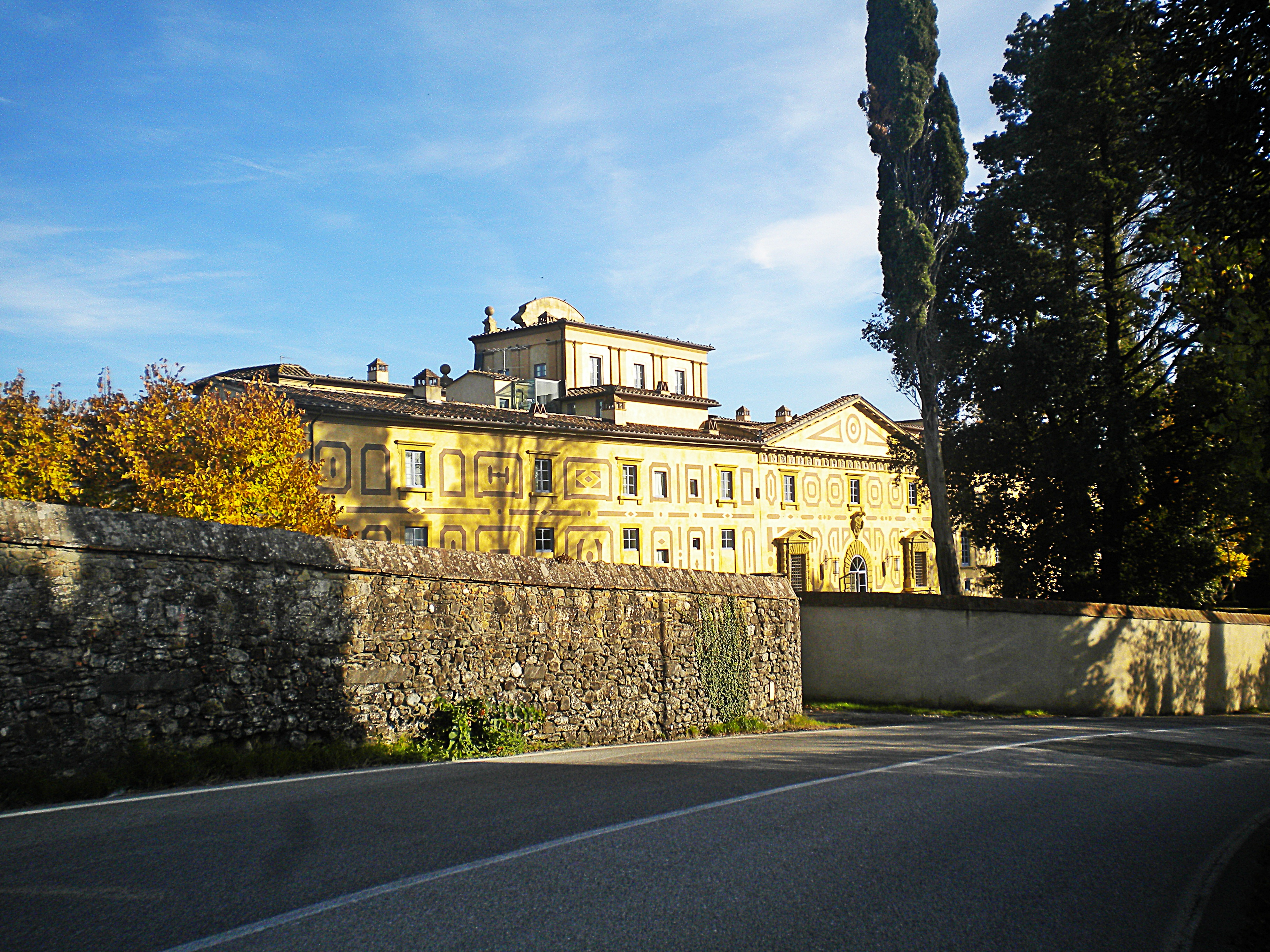 Villa Le Maschere-view